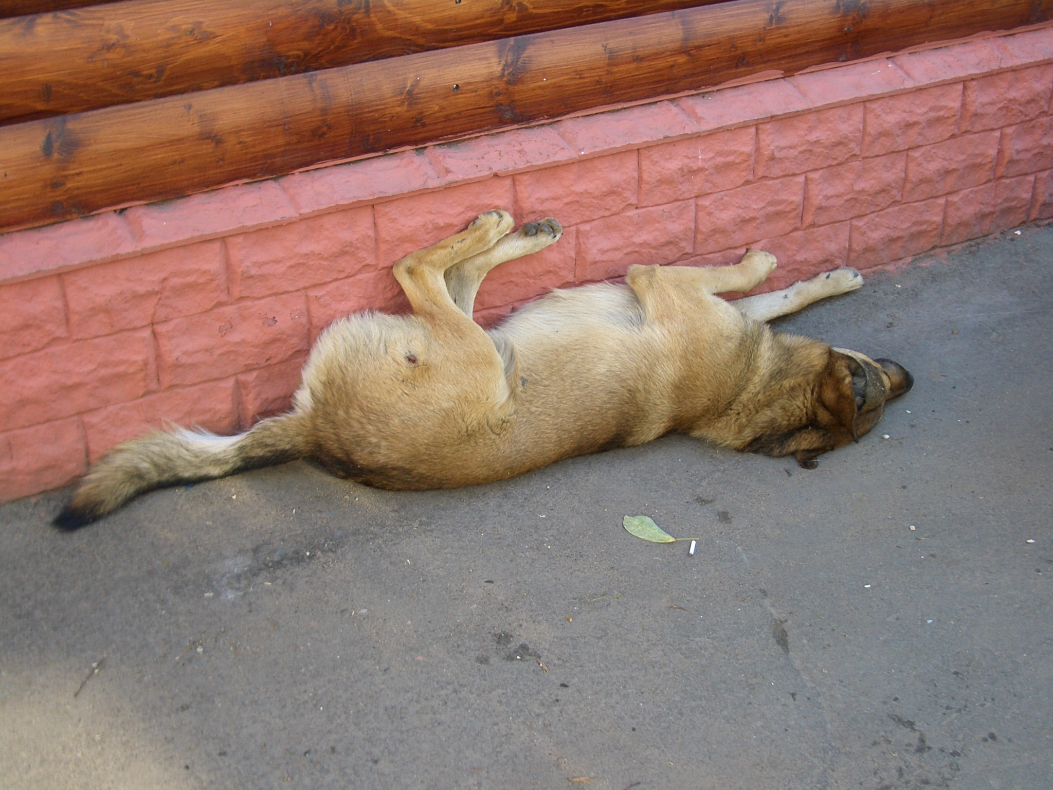 A dog relaxing on the sidewalk near the VDNKh subway station, Moscow